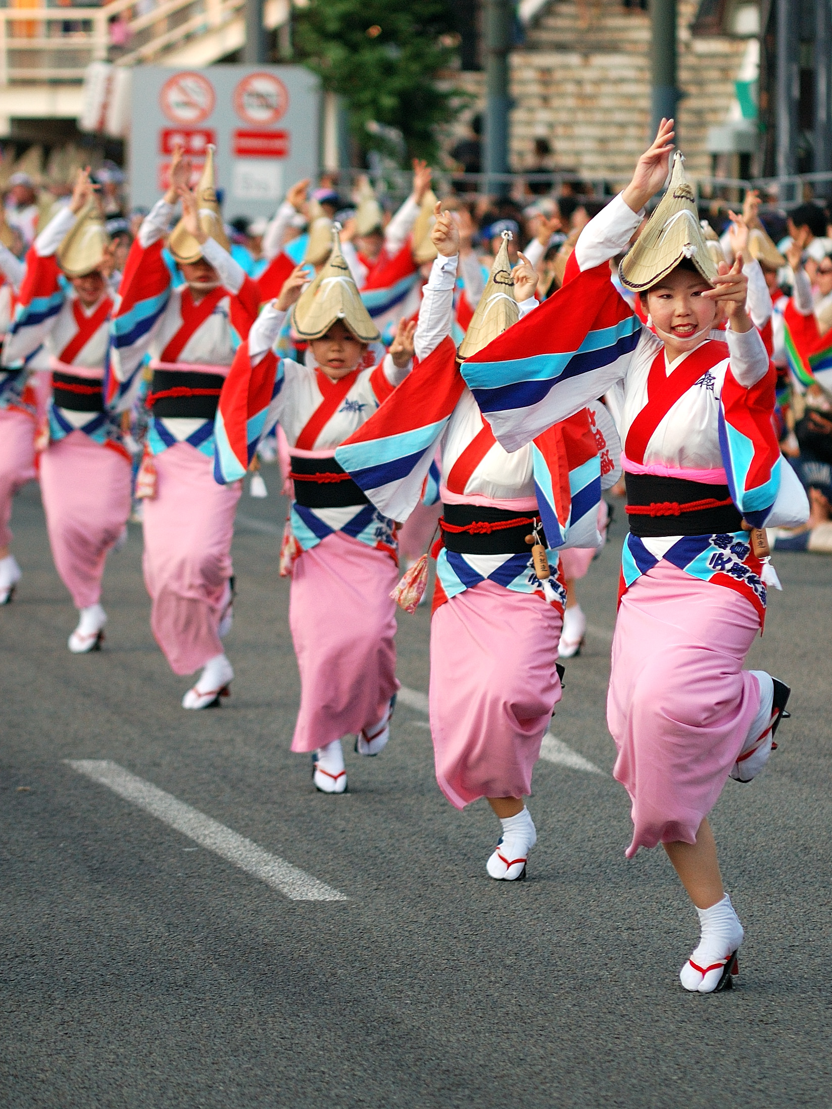 Awa Odori in Tokushima, Japan [2008]. Nikon D50